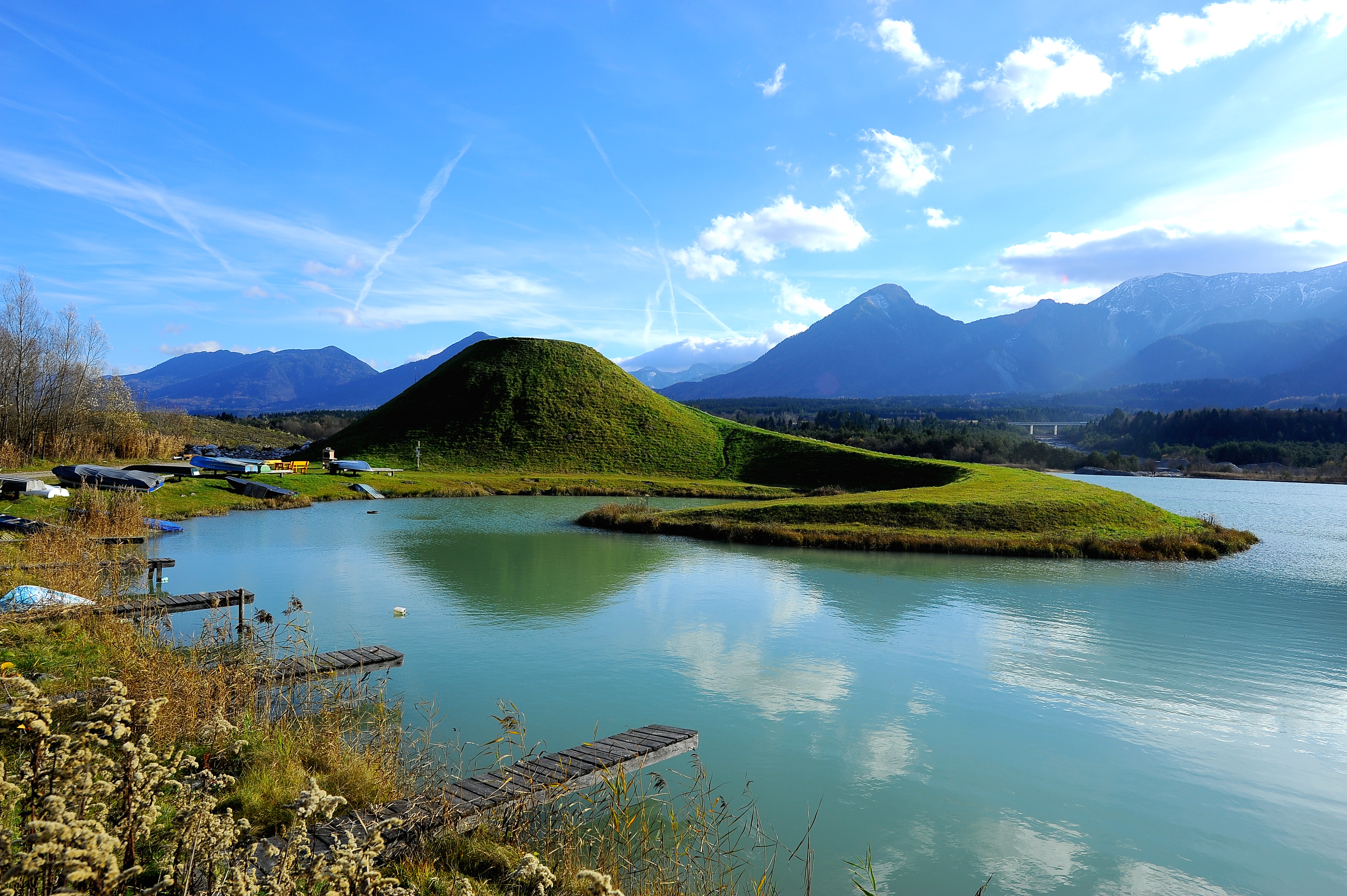 “Zikkurat” (land-art project created by the artists Ed Hoke, Tomas Hoke and Armin Guerino) on a peninsula at the reservoir of the river Drau near Selkach (Želuče) in the community Ludmannsdorf (Bilčovs), district Klagenfurt-Land, Carinthia, Austria